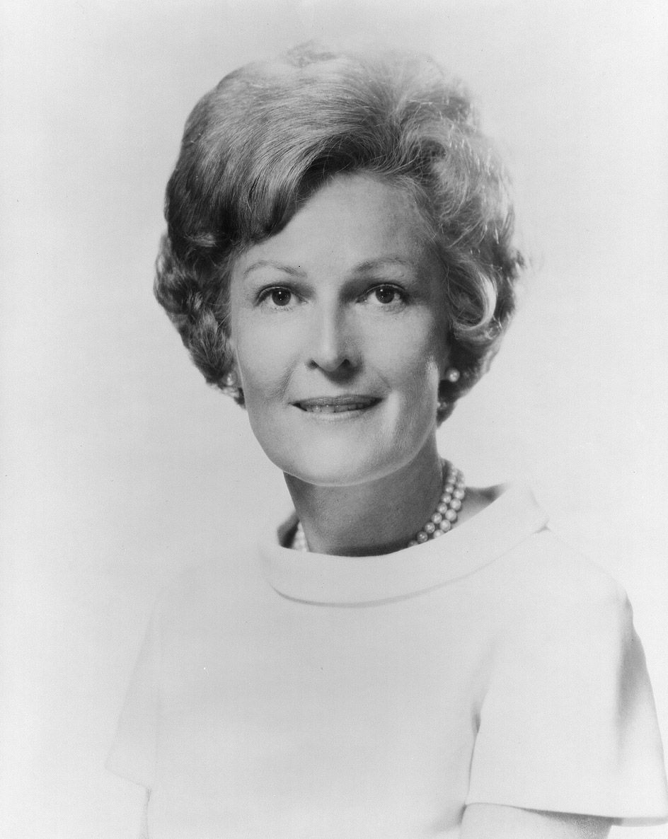 Patricia Nixon, former First Lady of the United States.